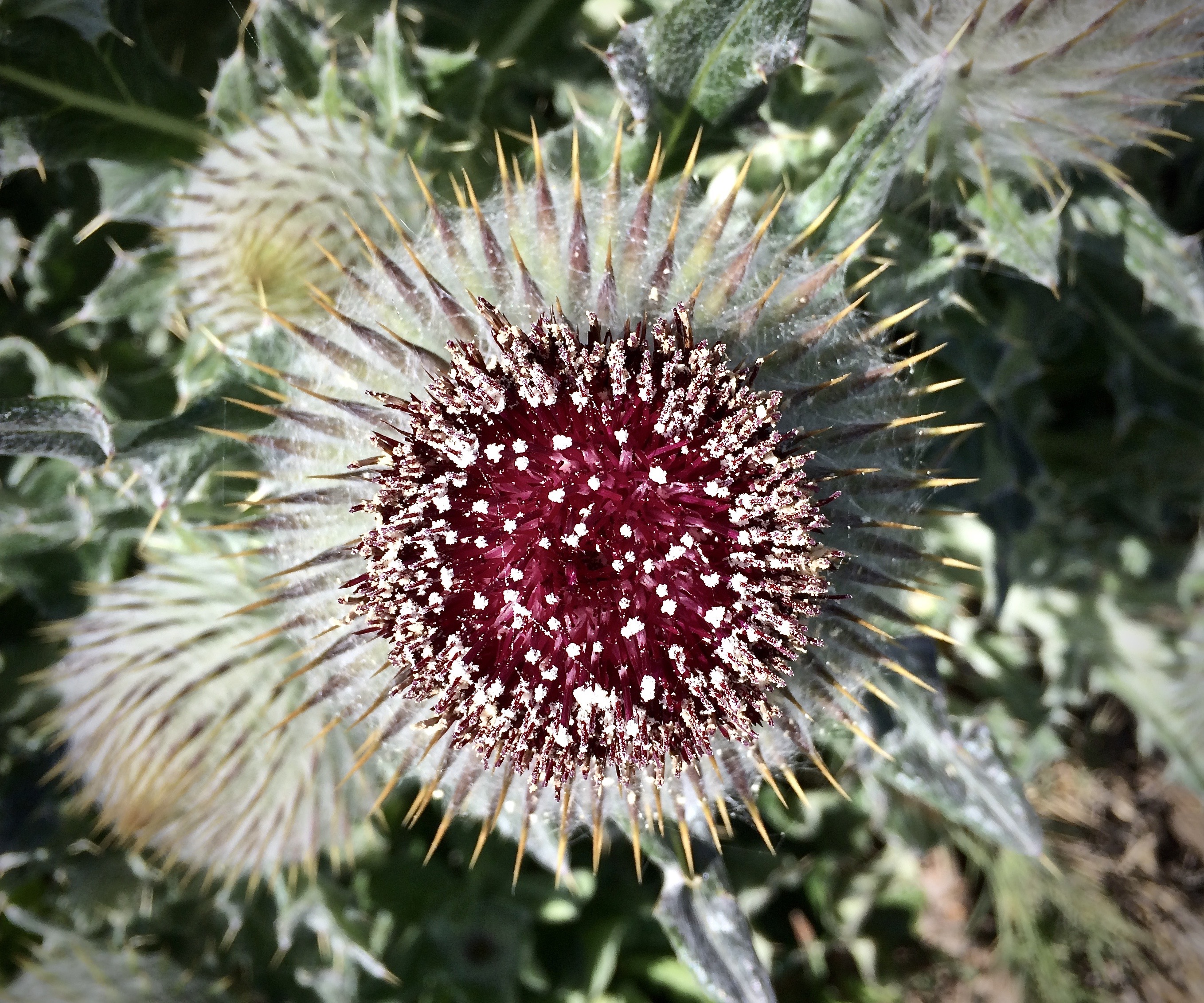 Hearst-San Simeon SP, Bluffs N of the lighthouse. Cirsium occidentale var. compactum COMPACT COBWEBBY THISTLE, which appears to be the coastal variety in this part of SLO county